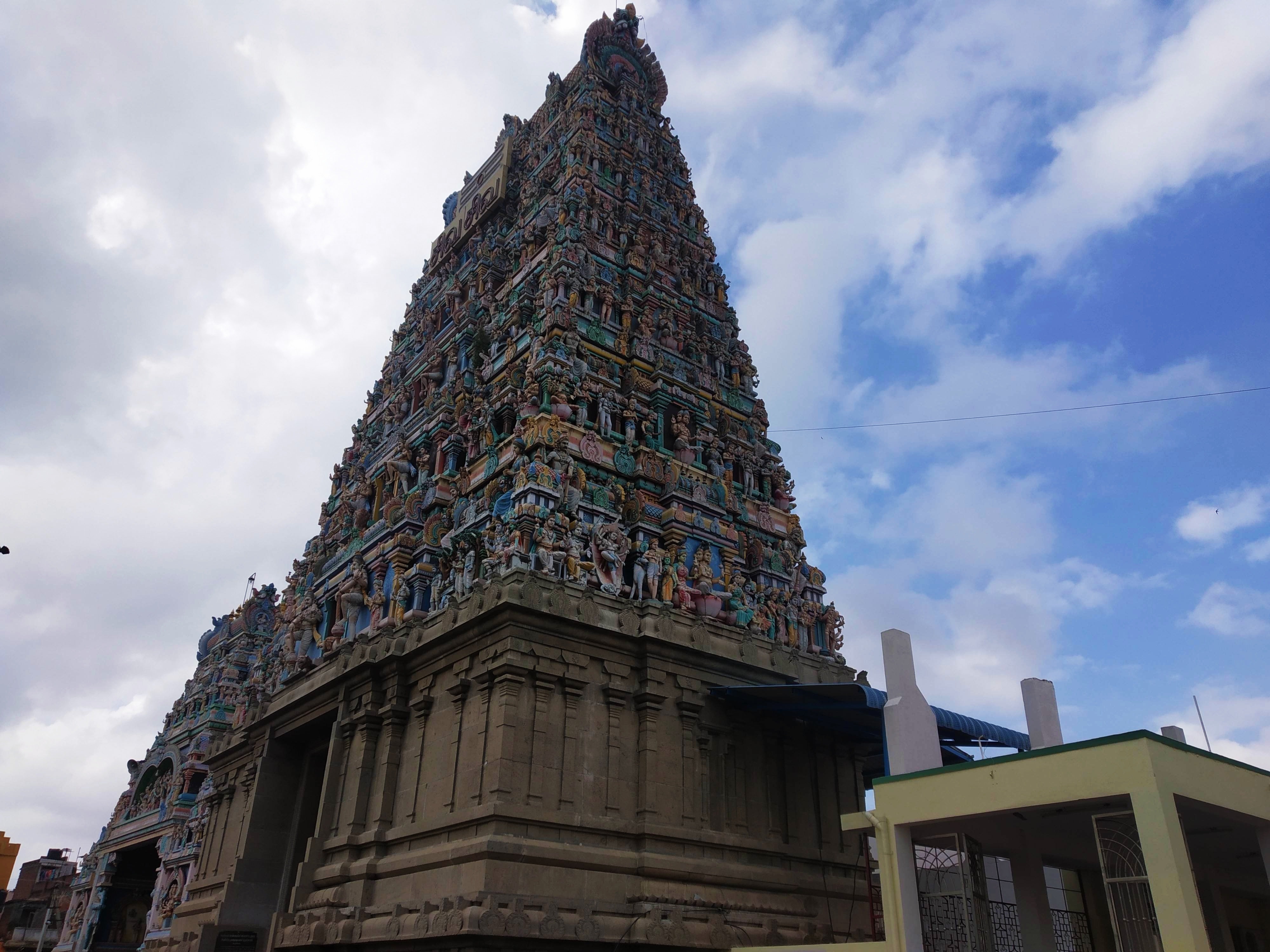 Shenbagavalli Amman Temple, Kovilpatti